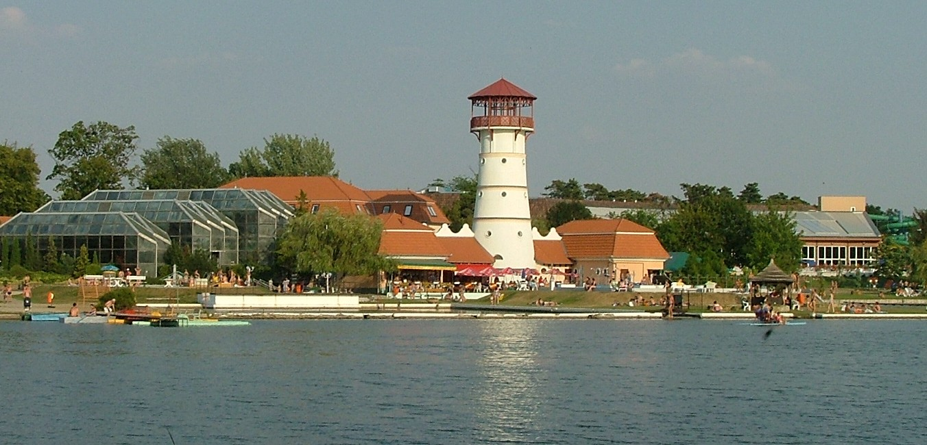 View of Gyopáros spa from the direction of the lake